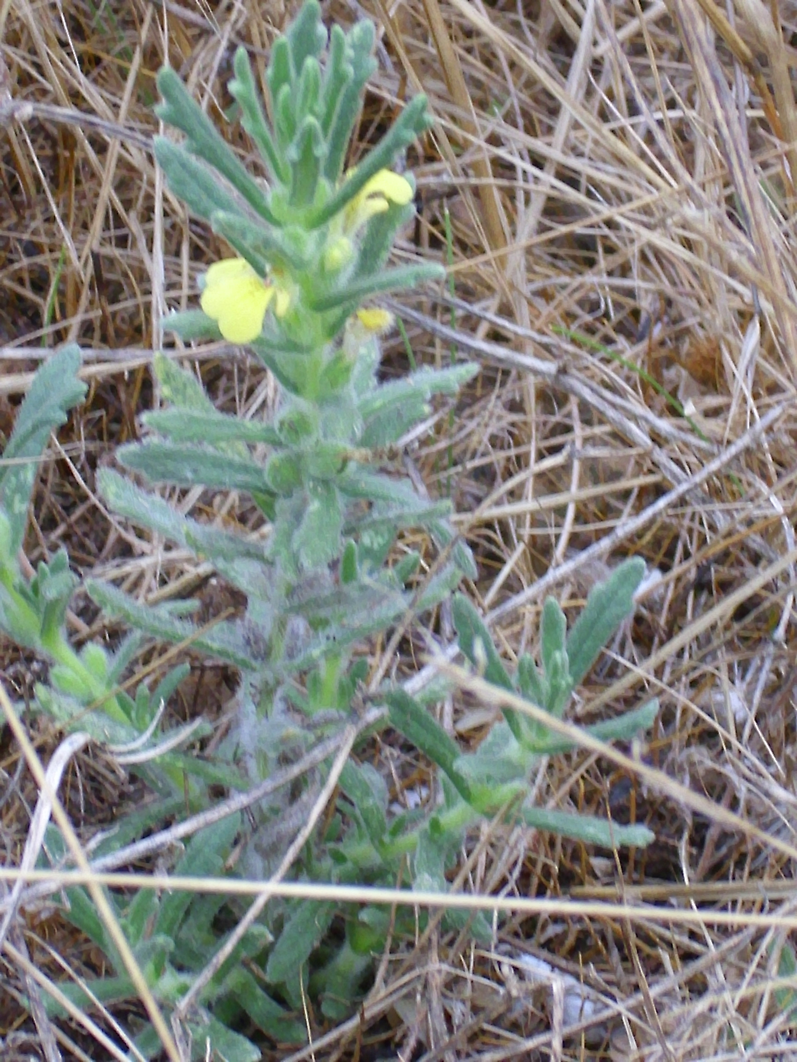 Ajuga iva subsp. pseudoiva Habitus, La Mata, Torrevieja, Alicante, Spain.